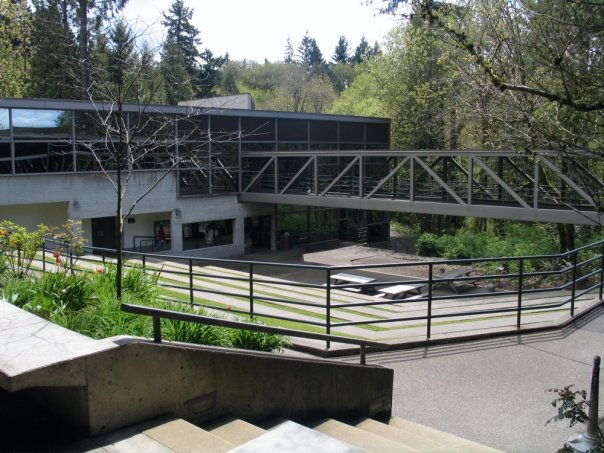 Outside view of the Lewis & Clark Law School Legal Research Center and the outdoor amphitheater.